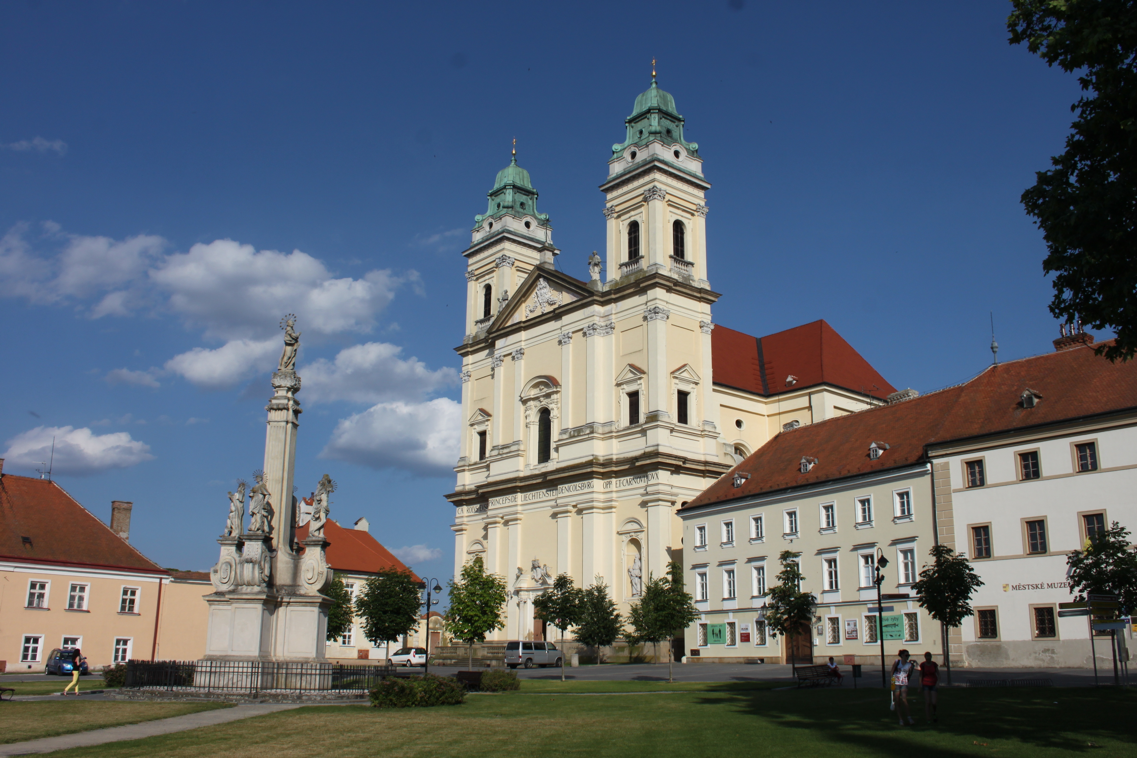 Valtice, square